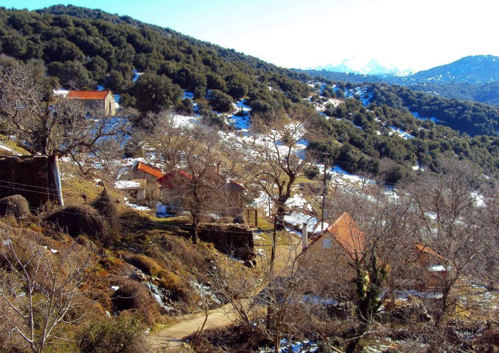 Pigi village, Achaia, Greece. "Zoumpata" is the former name of the village but is still in use amongst the locals.